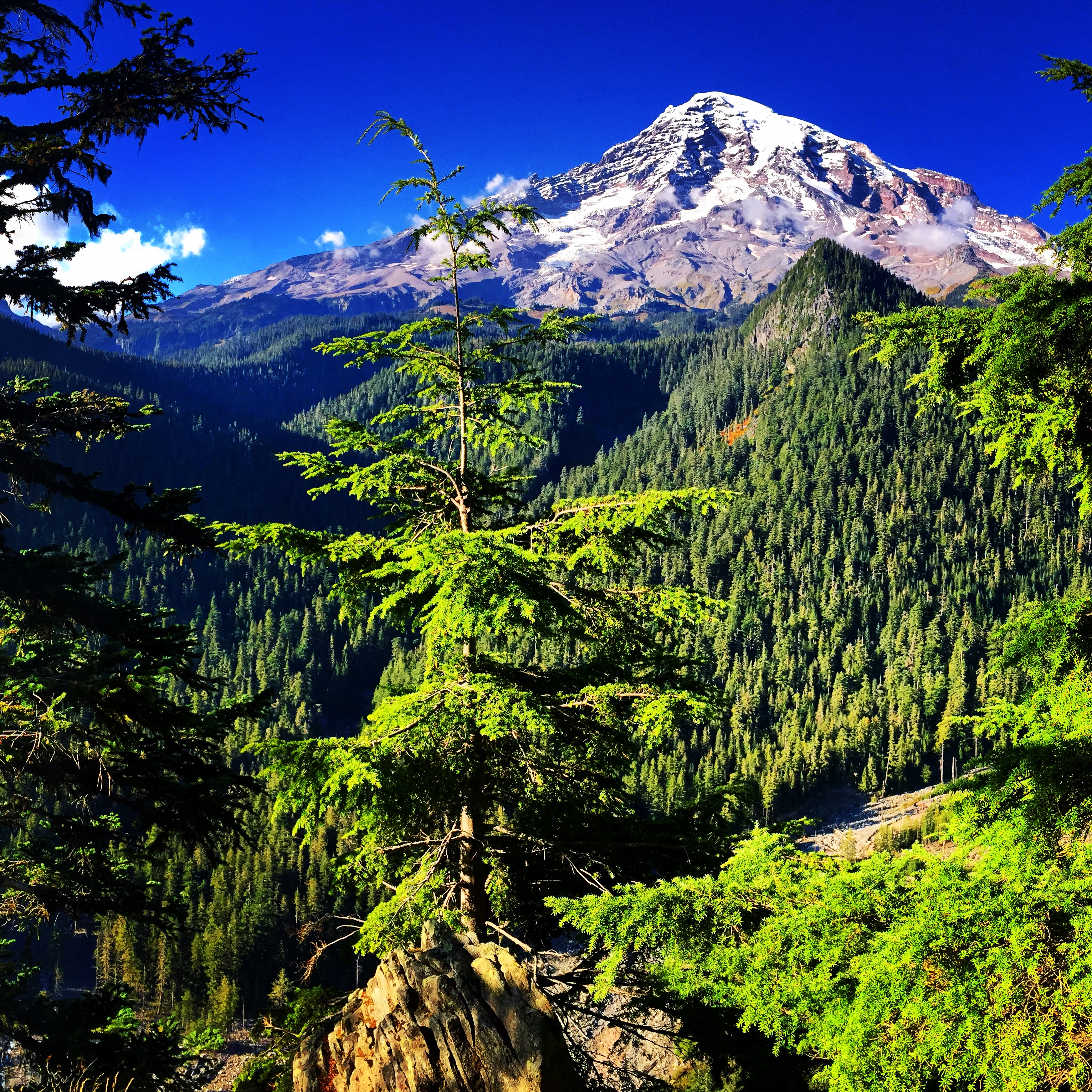 Mt. Rainier National Park view.